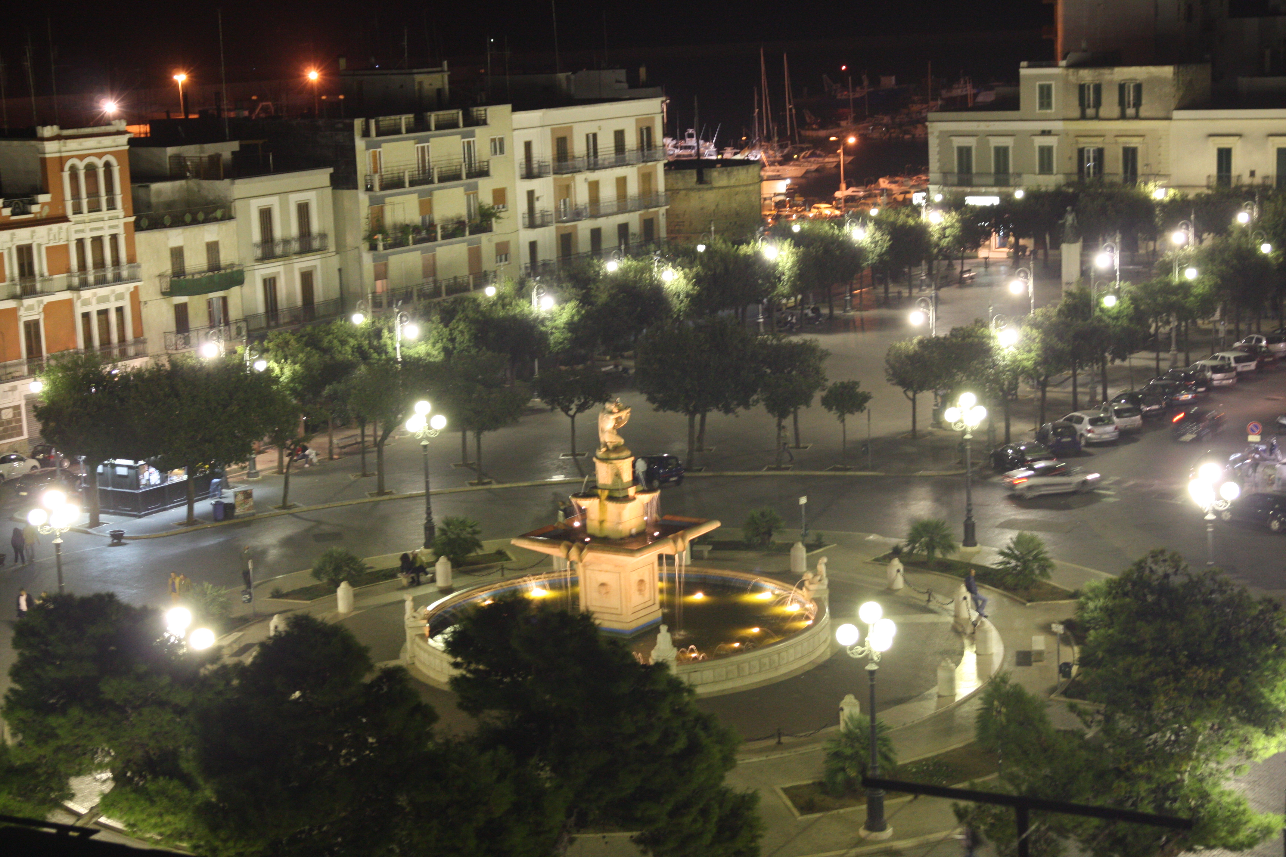 Piazza XX Settembre - Mola di Bari